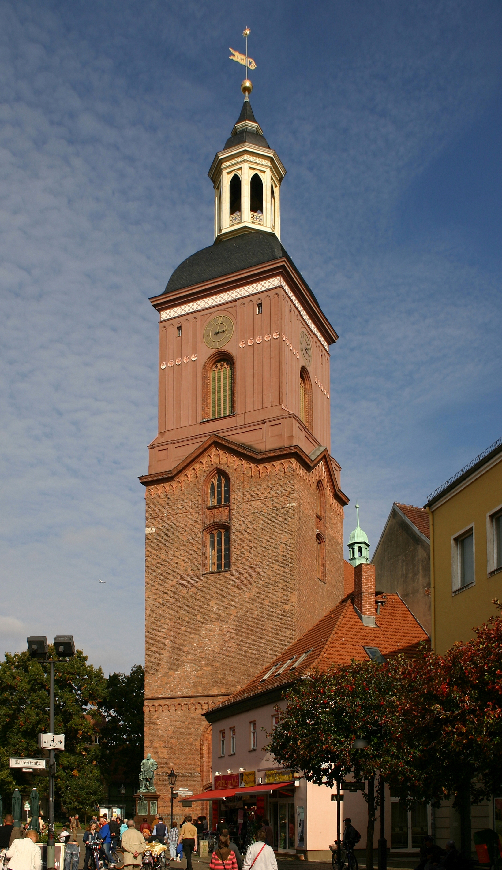 Church tower of St. Nicholas in Berlin-Spandau